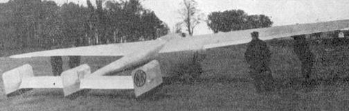 Naleszkiewicz-Nowotny NN-1 photo from L'Aerophile February 1933